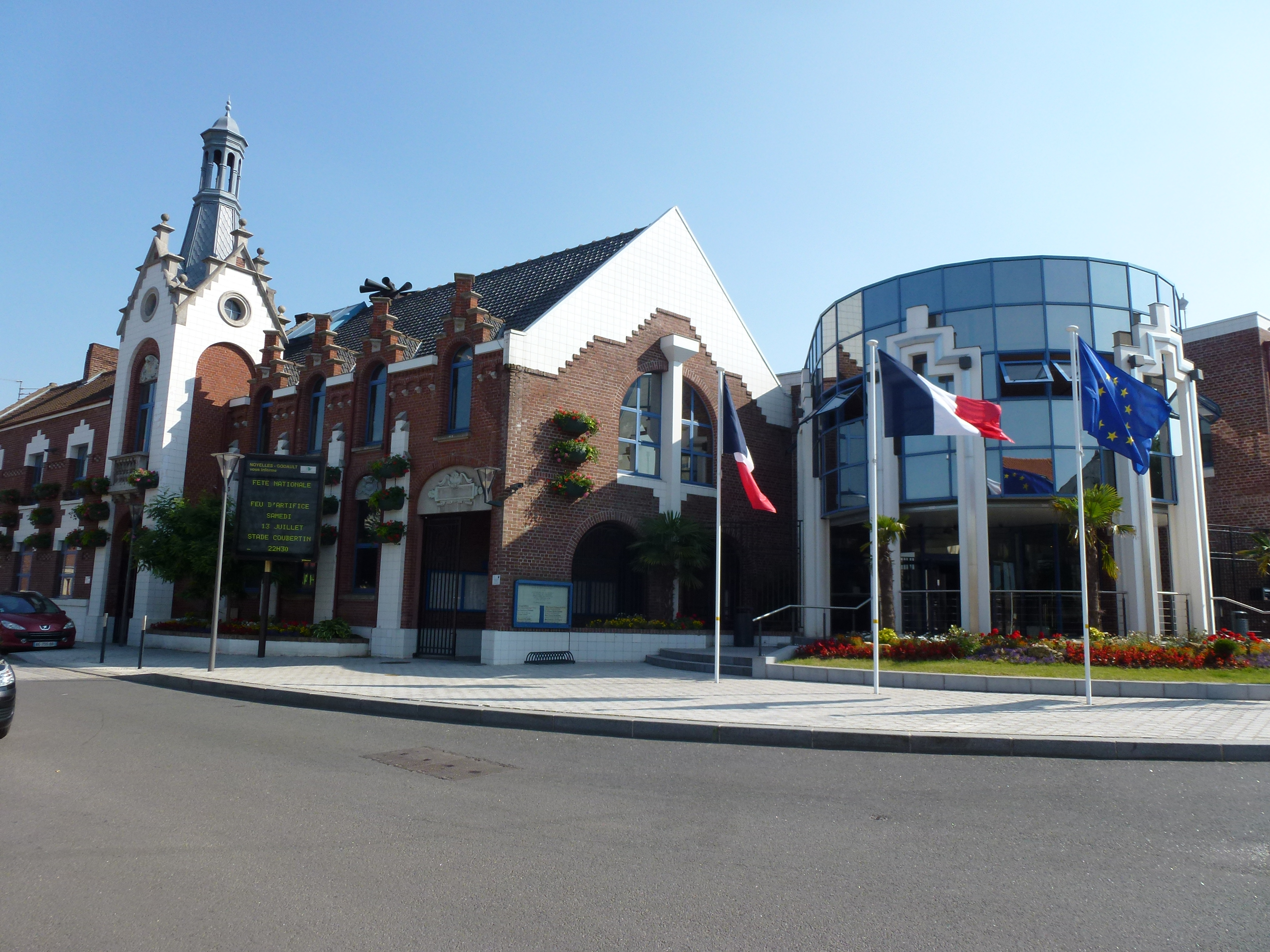 Noyelles-Godault (Pas-de-Calais) mairie